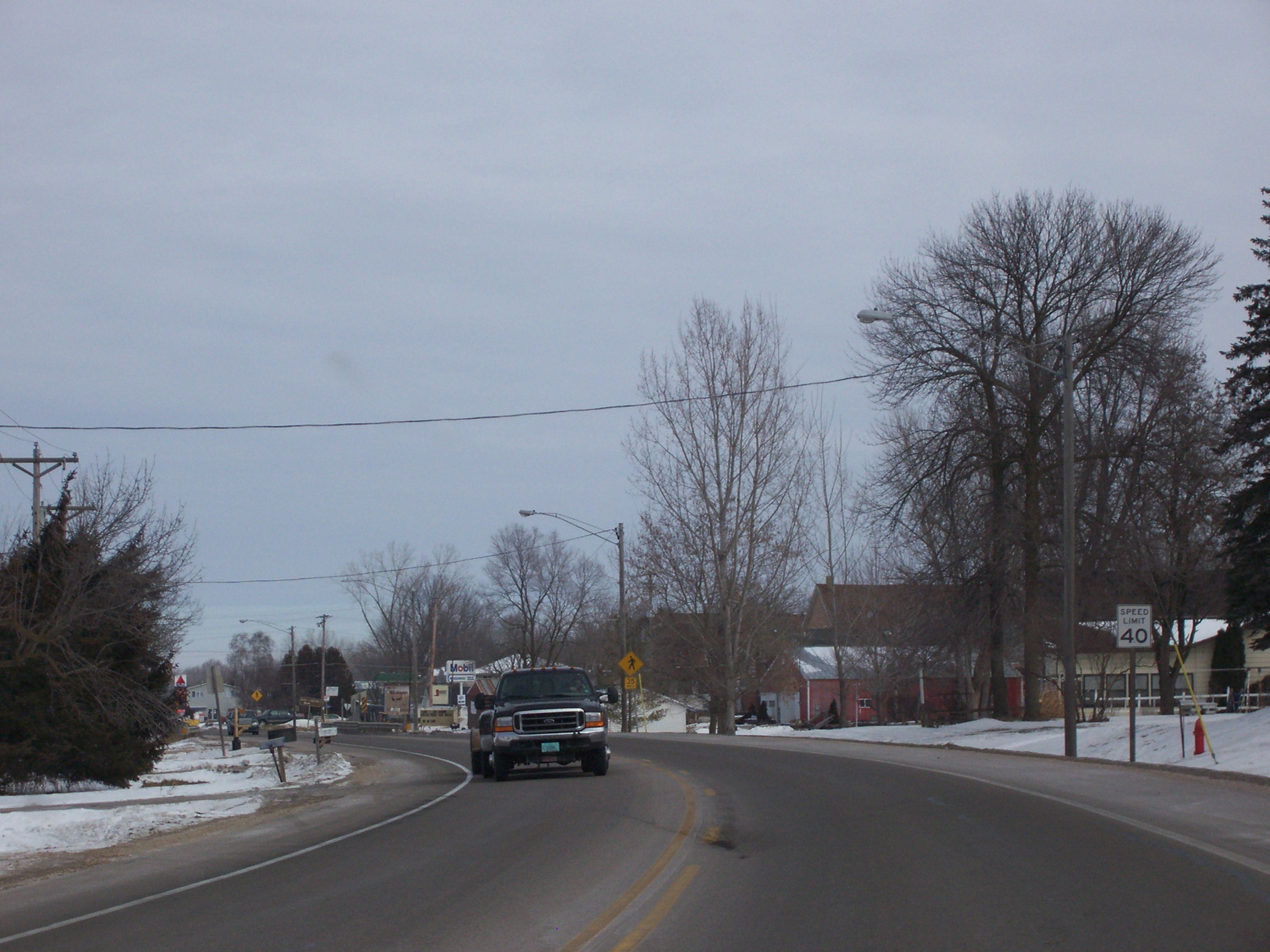 Houses in Cecil, Wisconsin, USA. Travelly northbound on Wisconsin Highway 22. Taken February 11, 2007 by myself.